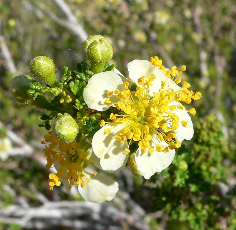 Purshia stansburiana in Calico Basin, Spring Mountains, southern Nevada